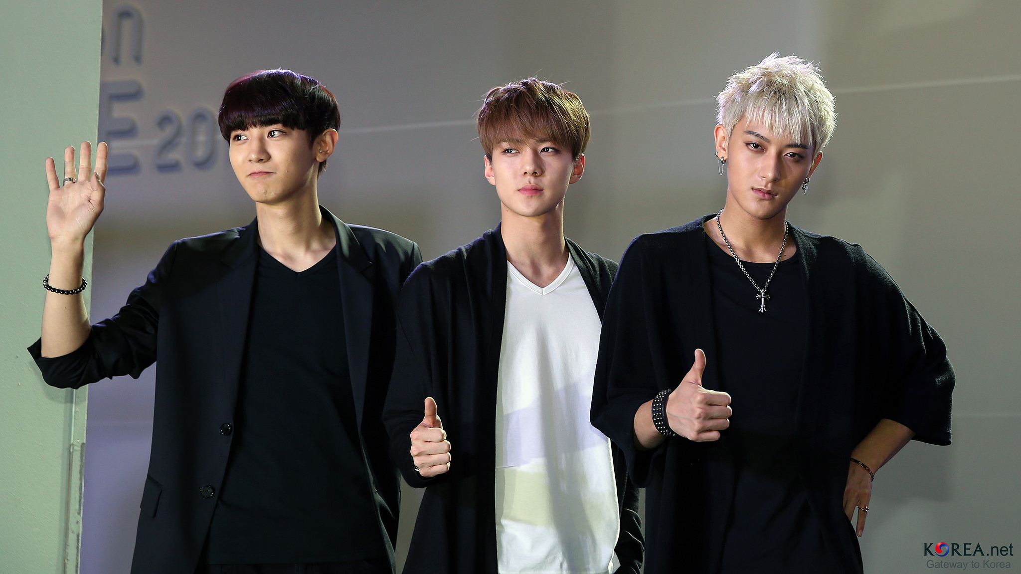 Fashion Kode 2014 July 16, 2014 aT Center, Seocho-gu, Seoul Ministry of Culture, Sports and Tourism Korean Culture and Information Service ( Official Photographer: Jeon Han This official Republic of Korea photograph is licensed as free content, so while restrictions such as personality or privacy rights may apply, in general, manipulations are allowed. If you want a photograph without a watermark, you may ask via Flickr e-mail. 패션코드 2014 2014-07-16 aT 센터 문화체육관광부 해외문화홍보원 코리아넷 전한